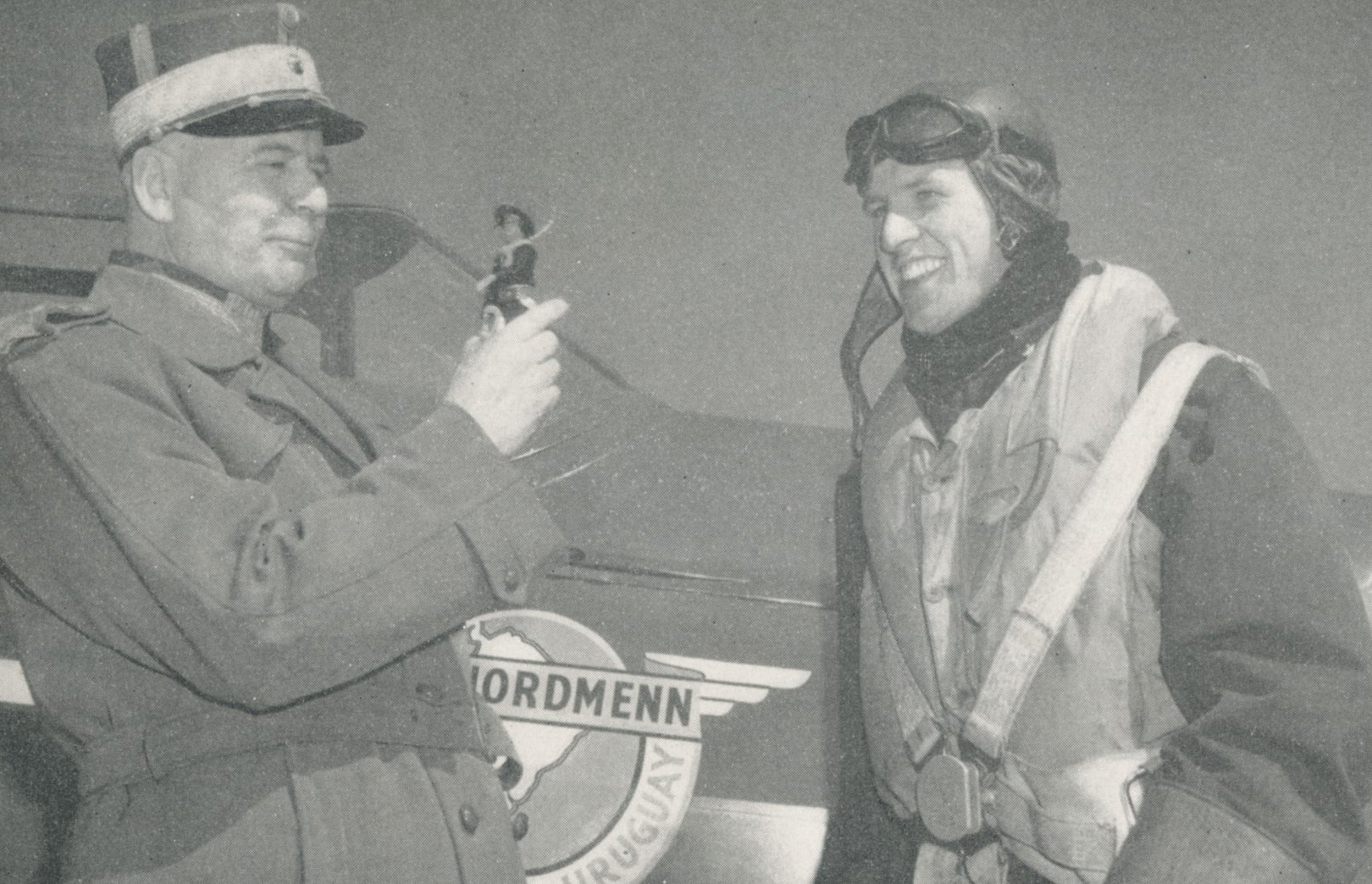 Major General William Steffens (1880-1964) studying a gaucho figurine with instructor pilot Werner Christie (1917-2004) after naming a Fairchild Cornell "El Gaucho".